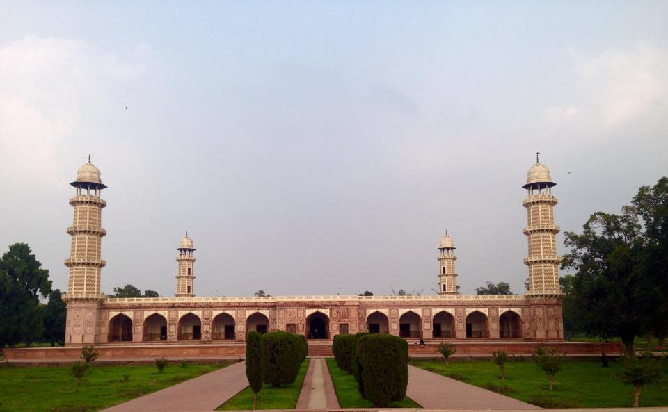 Jahangir’s Tomb and compound This is a photo of a monument in Pakistan identified as the PB-64